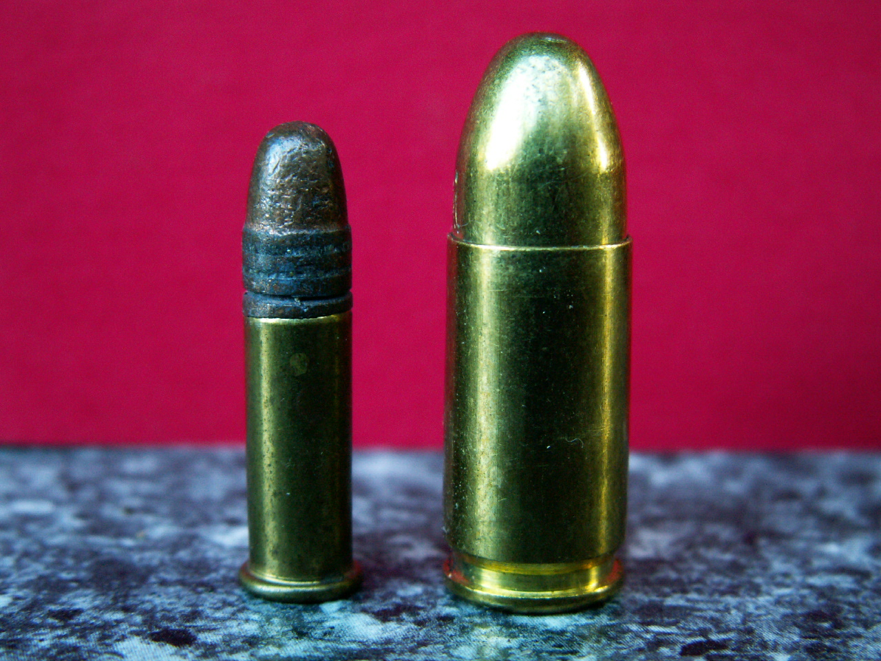 Two cartridges, to the right a 9 mm Luger Parabellum, developed for the German Luger P08 pistol, to the left a .22 Long Rifle for the American Ruger MK II.